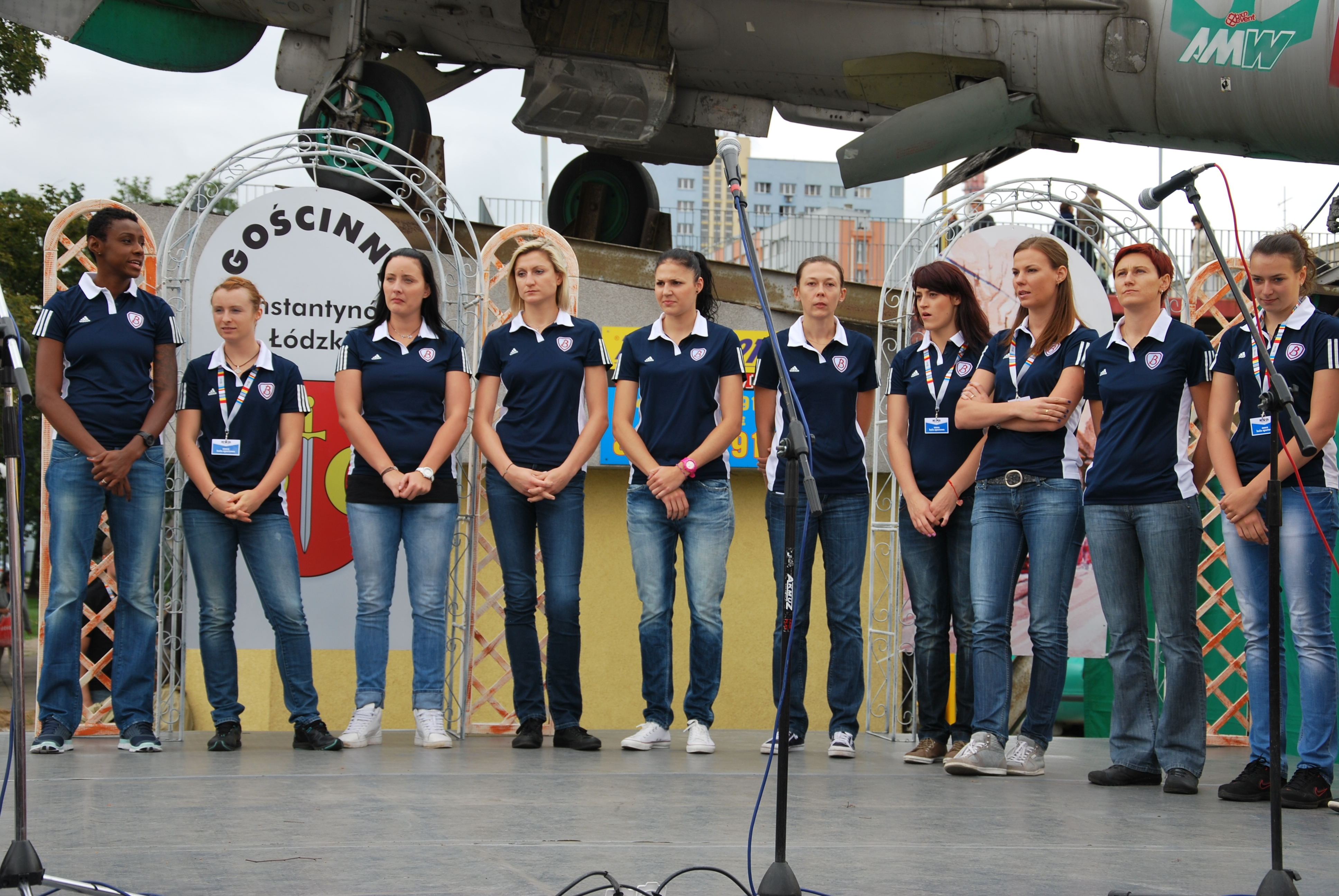 Budowlani Łódź team 2012-2013